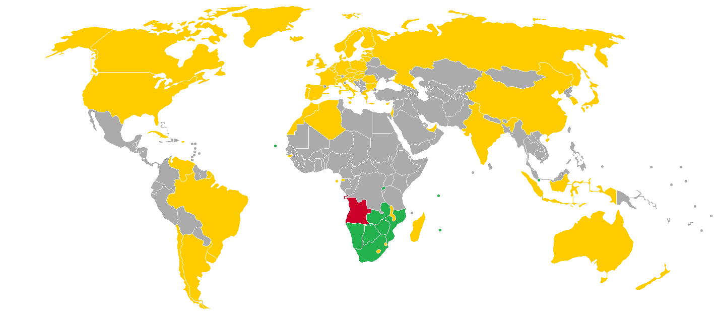 Visa policy of Angola Angola Visa-free access Visa on arrival Visa required